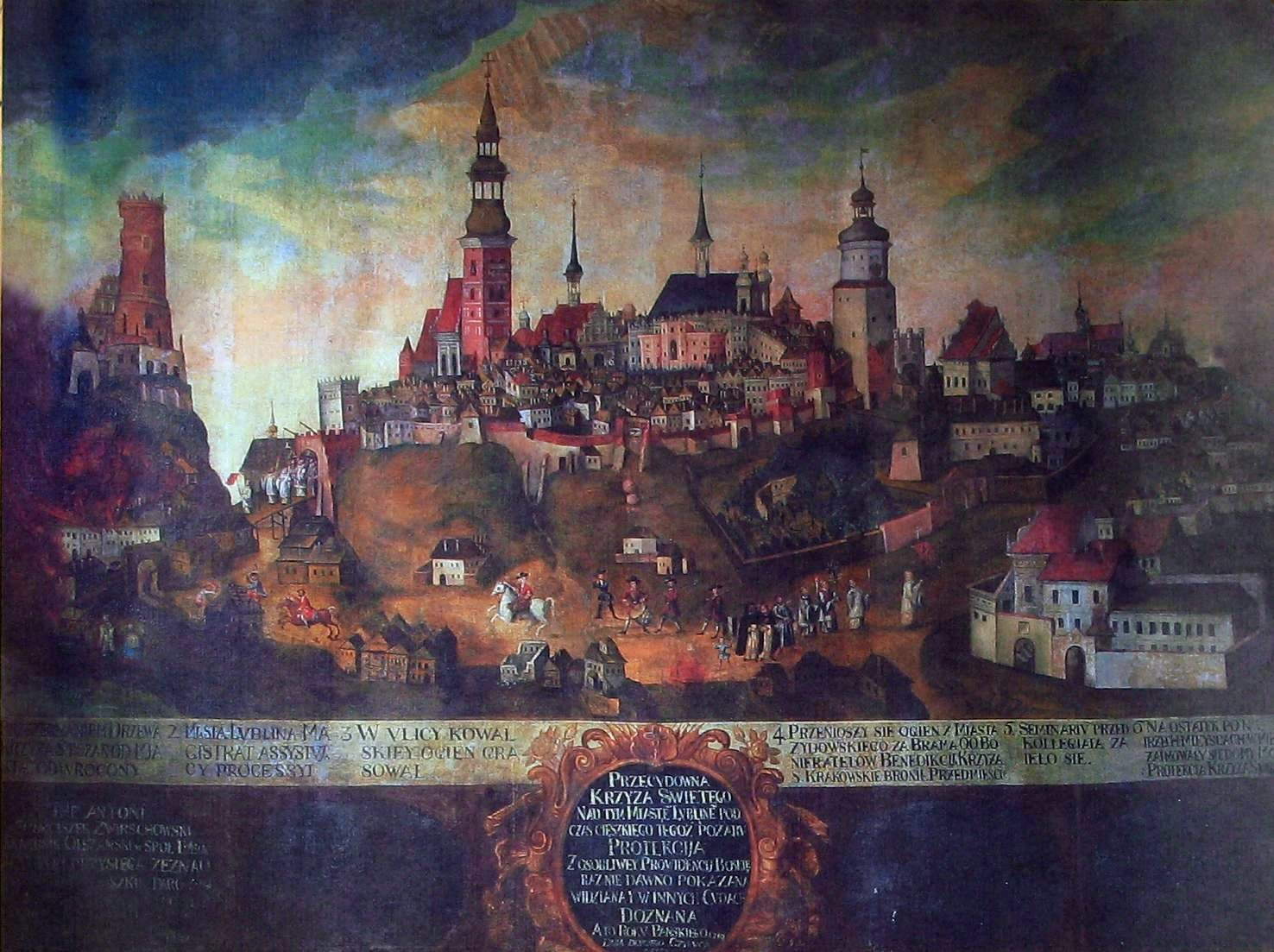 The Fire of Lublin (1719).